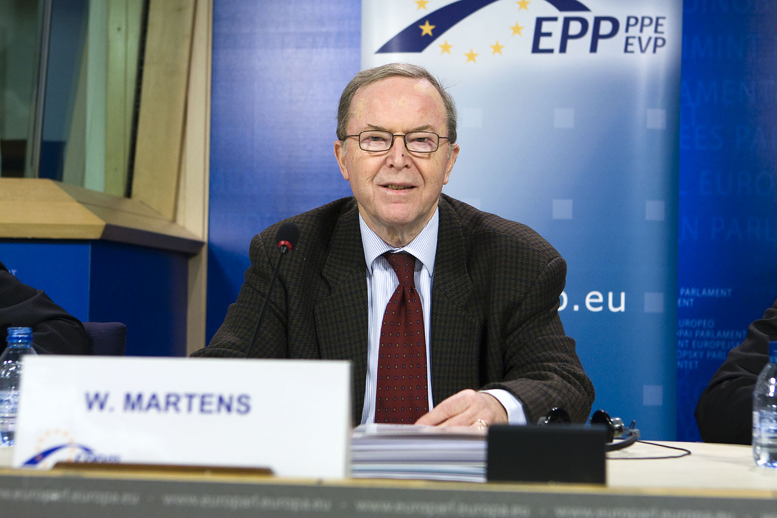 EPP President Wilfried Martens